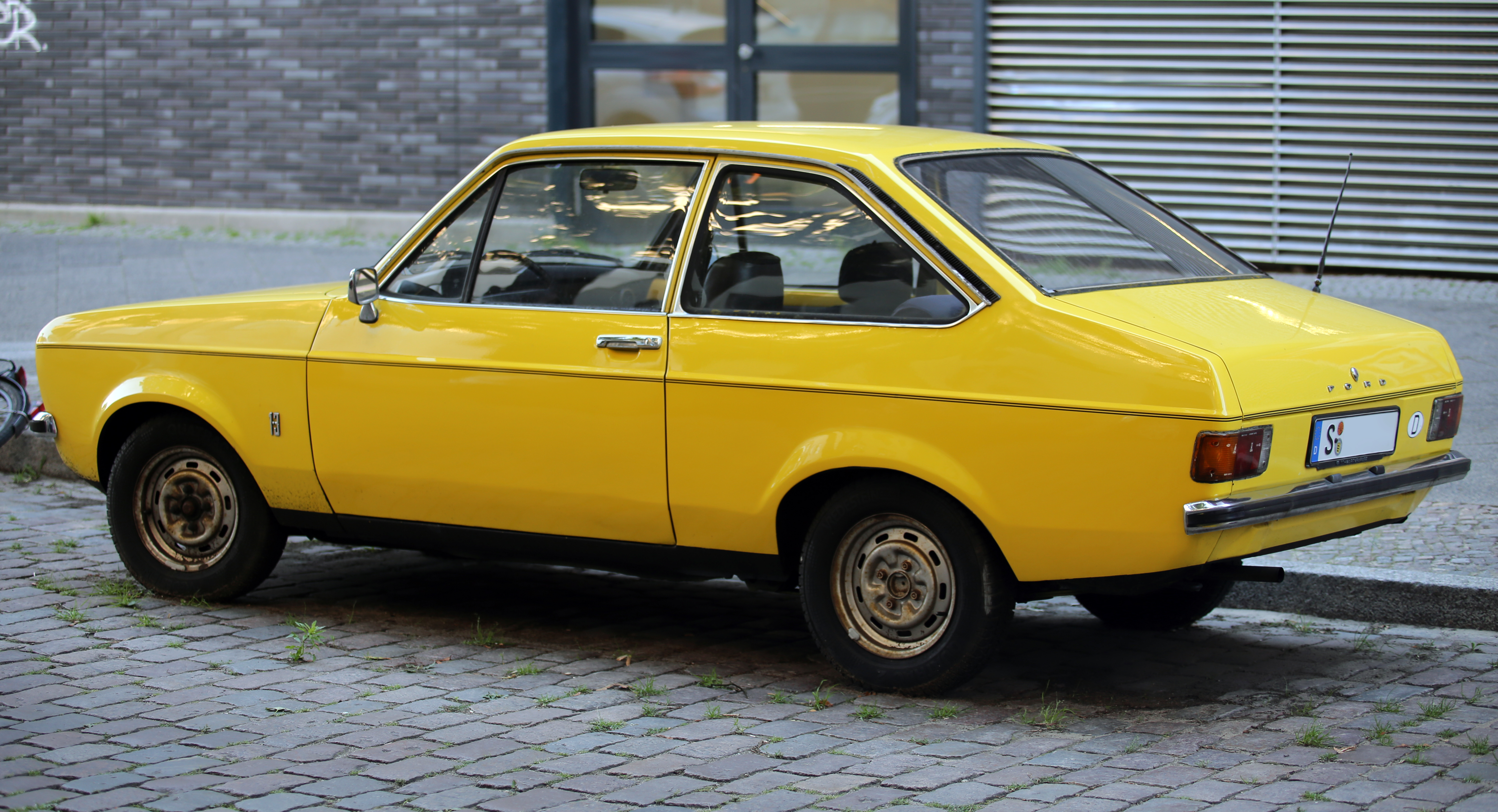 1977 Ford Escort 1.3 (base) two-door sedan.